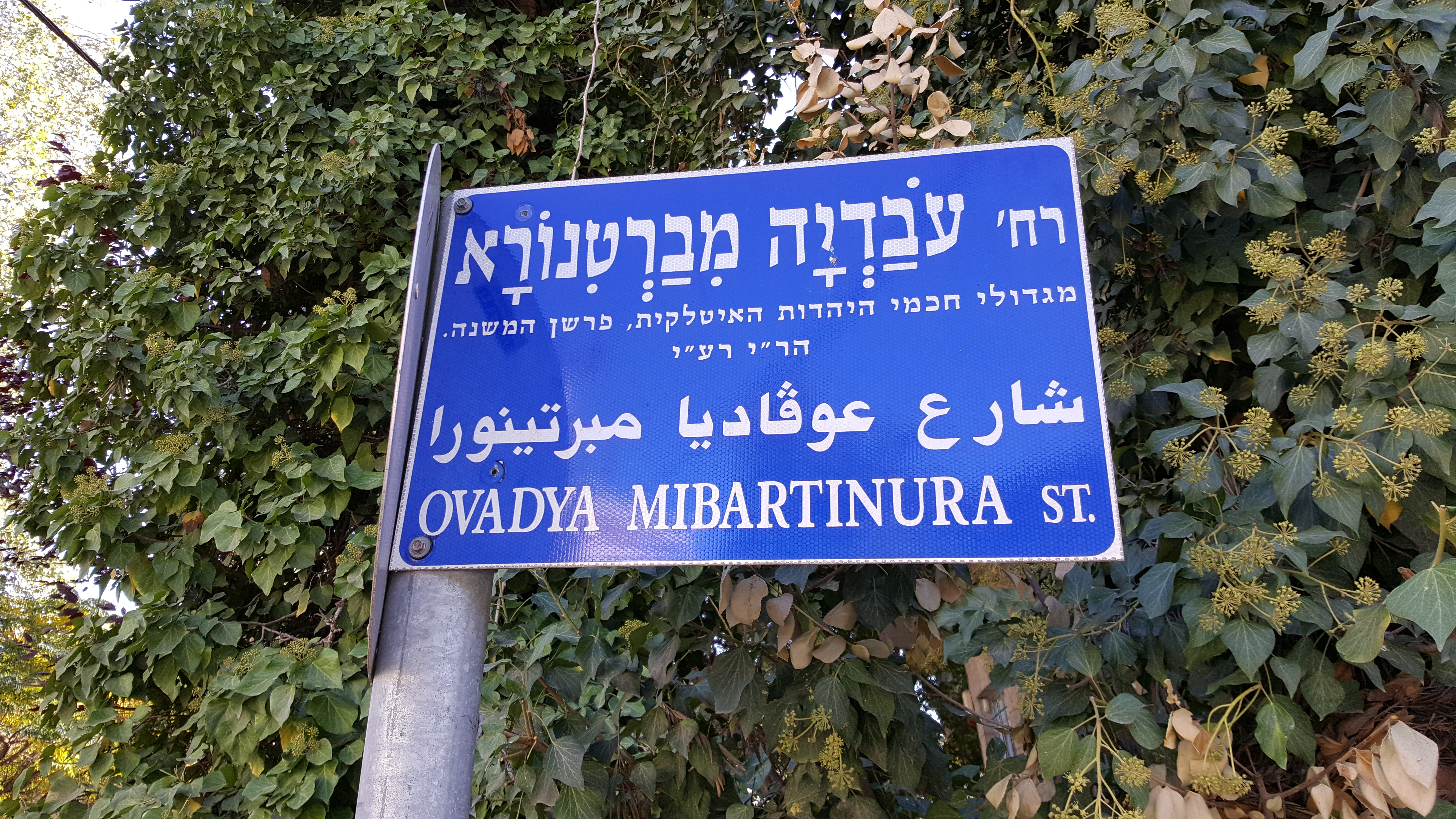 Ovadya MiBartinura Street in Jerusalem, Israel. Ovadya of Bartinura was a respected rabbi from Italy who helped revitalize Jerusalem in the a 15th-century.